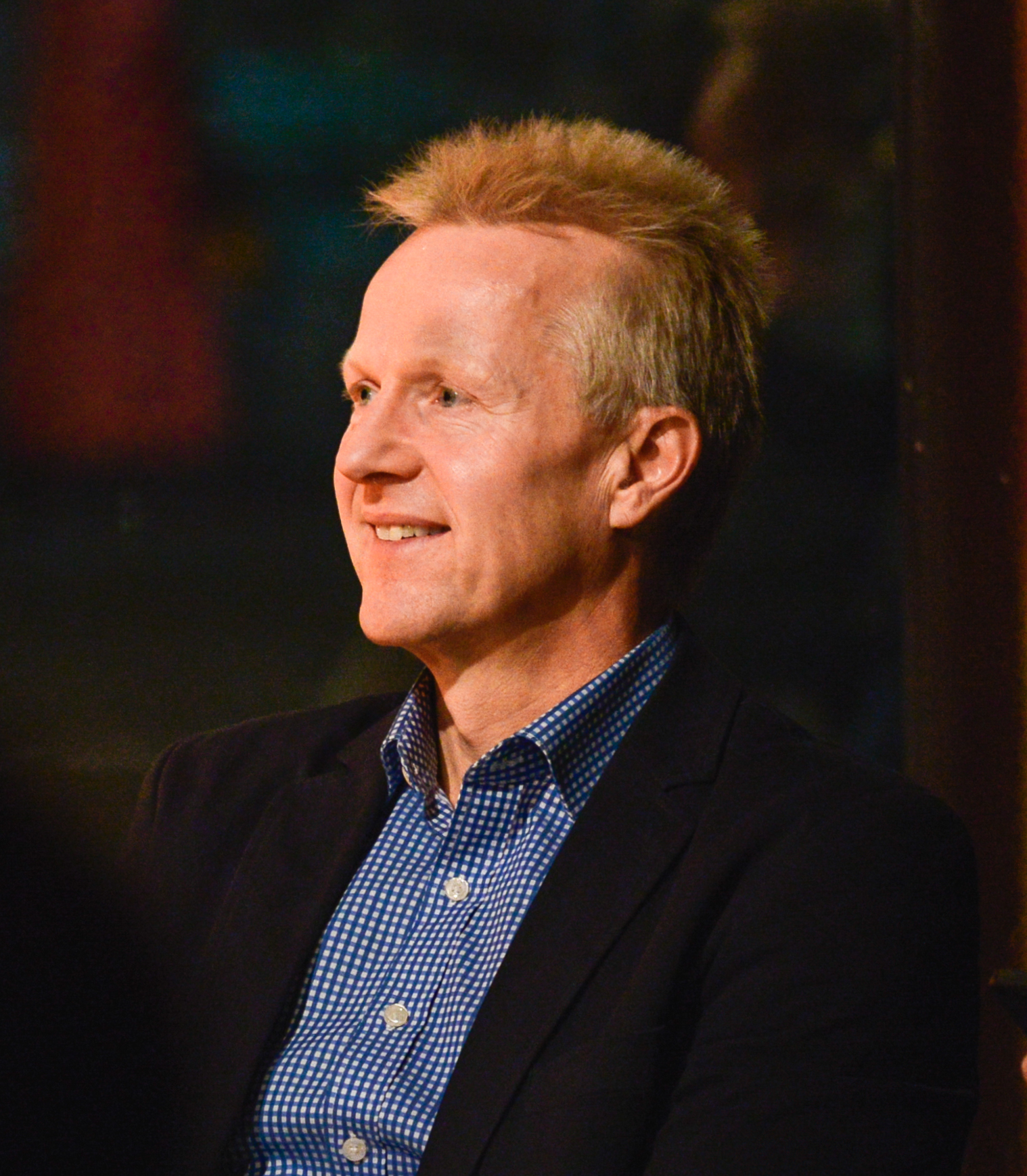 A debate match between the country's two major thinkers at Kulturhuset-Stadsteatern in Stockholm 2014. From Timbro: Lars Anders Johansson, Maria Eriksson, Adam Cwejman, Stefan Fölster.